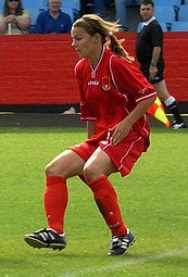 Birmingham City ladies against Cardiff City Ladies 2006/07 Season